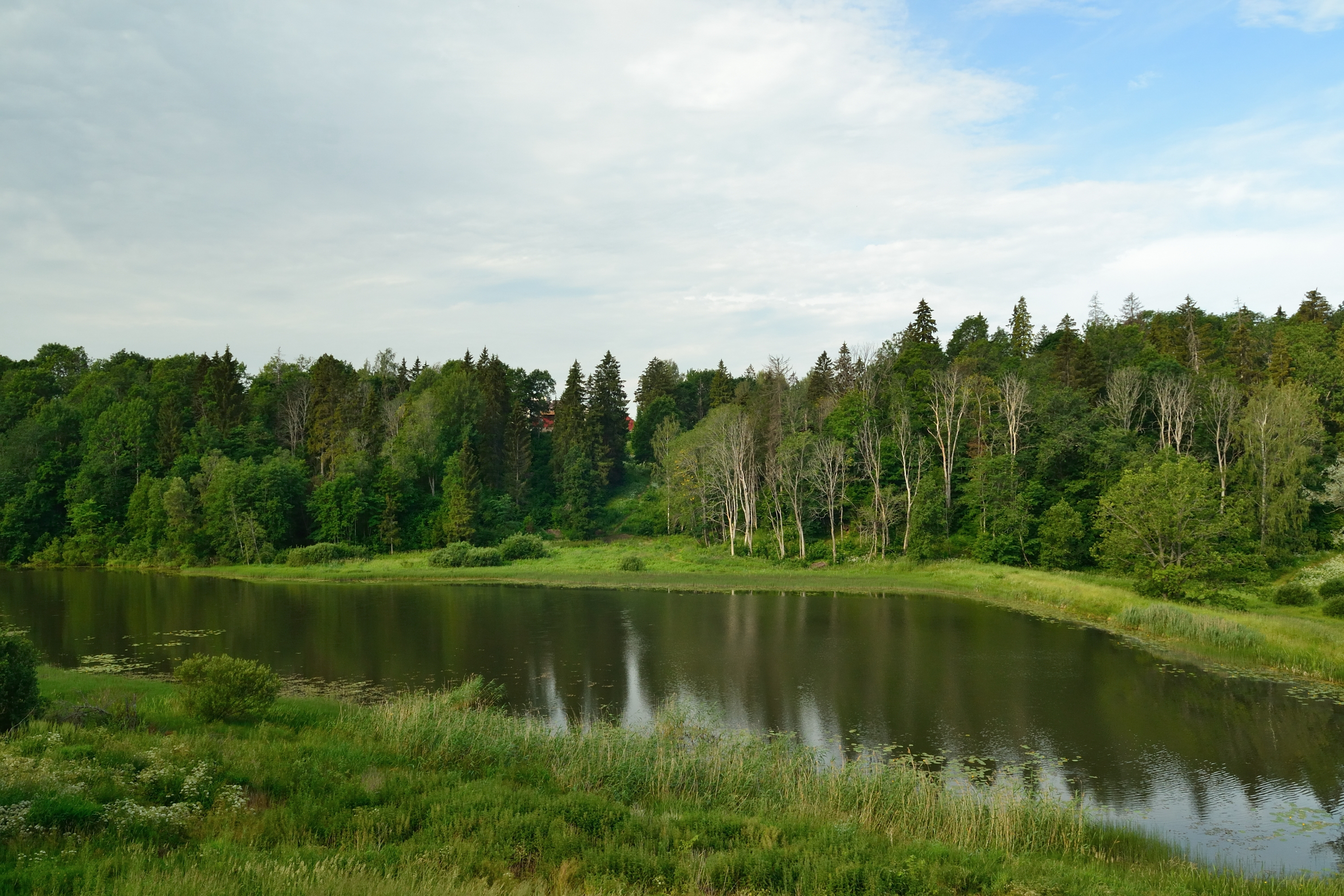 Linnaveski impounded lake on Halliste river